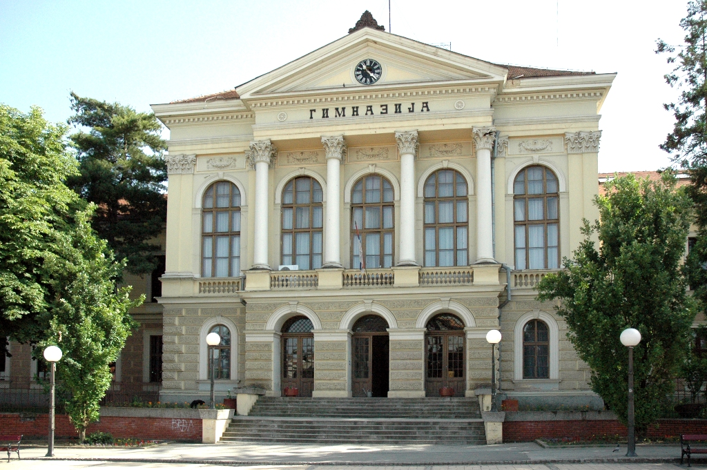 The high schol in Kragujevac